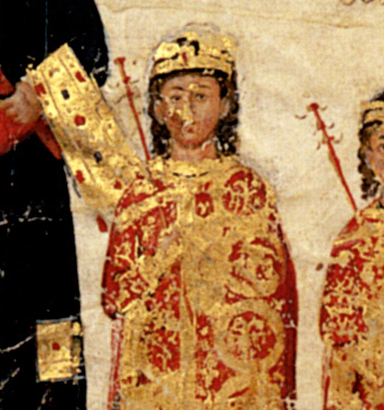 А miniature from the Louvre MS. Ivoires 100 manuscript, depicting the Byzantine emperor Manuel II Palaiologos, empress Helena and three of their sons - the co-emperor John VIII and the Despots Theodore and Andronikos.